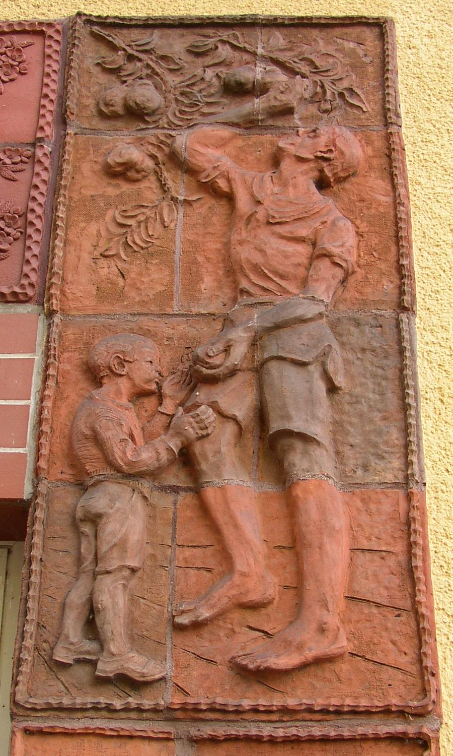 Relief in Oranienburg-Eden in Brandenburg, Germany